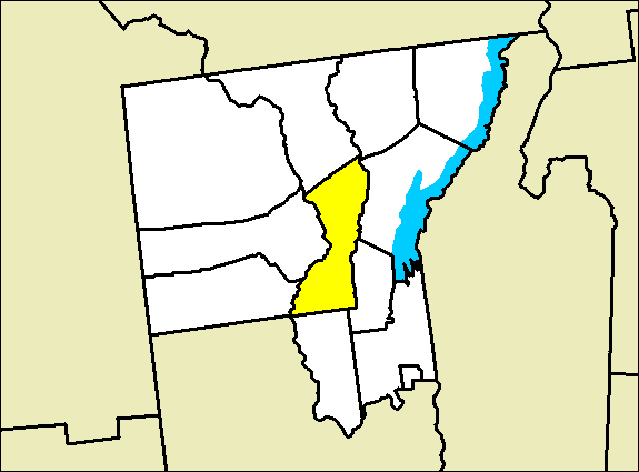 Map of Warren County, New York with town of Warrensburg highlighted.